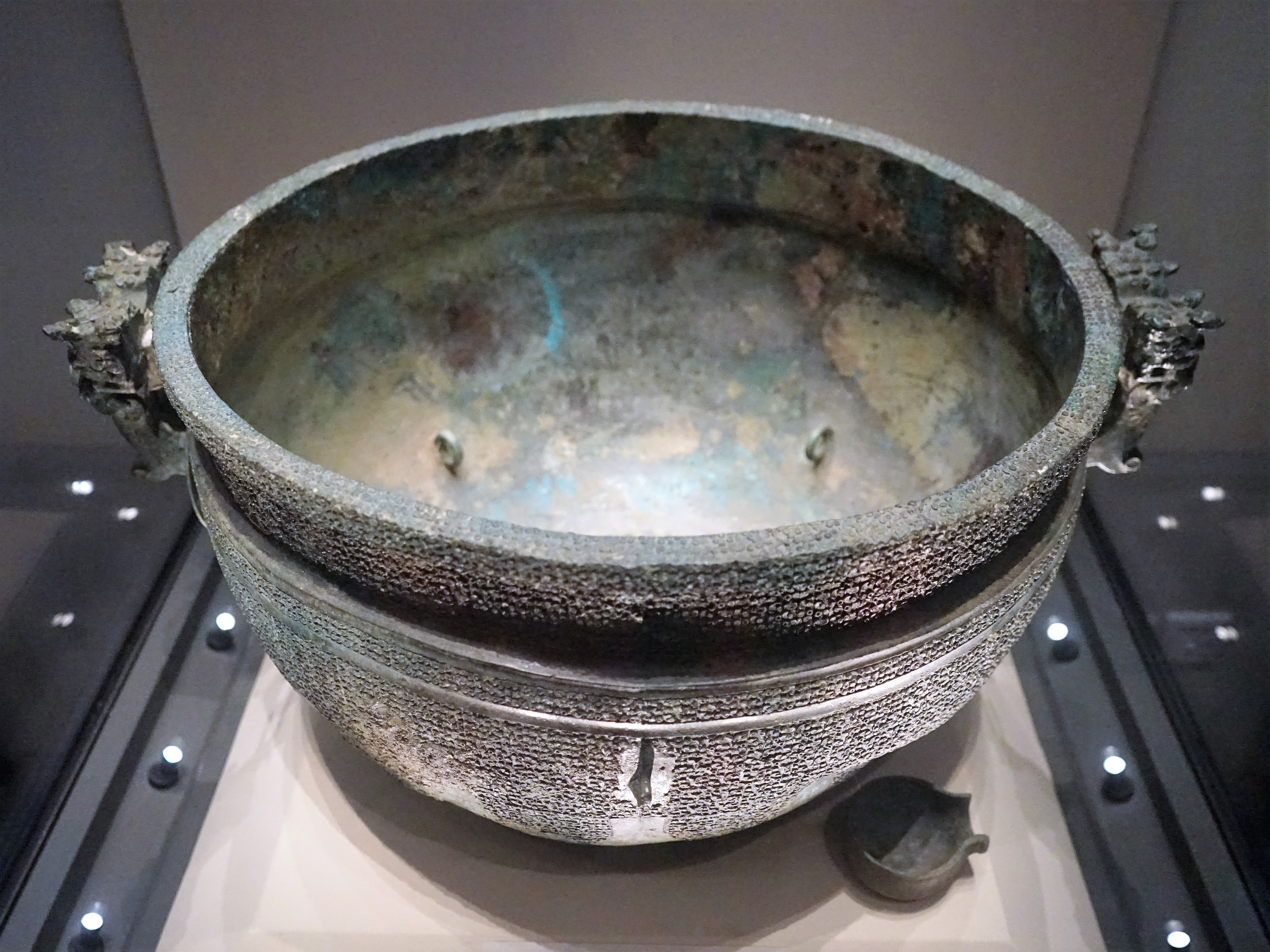 "Wu Wang Guang" Bronze Jian (water container). Spring and Autumn period, Wu state. The inscription inside records that Guang commissioned it for his daughter's dowry and provides evidence of a political marriage between families of the Wu and Chu states.